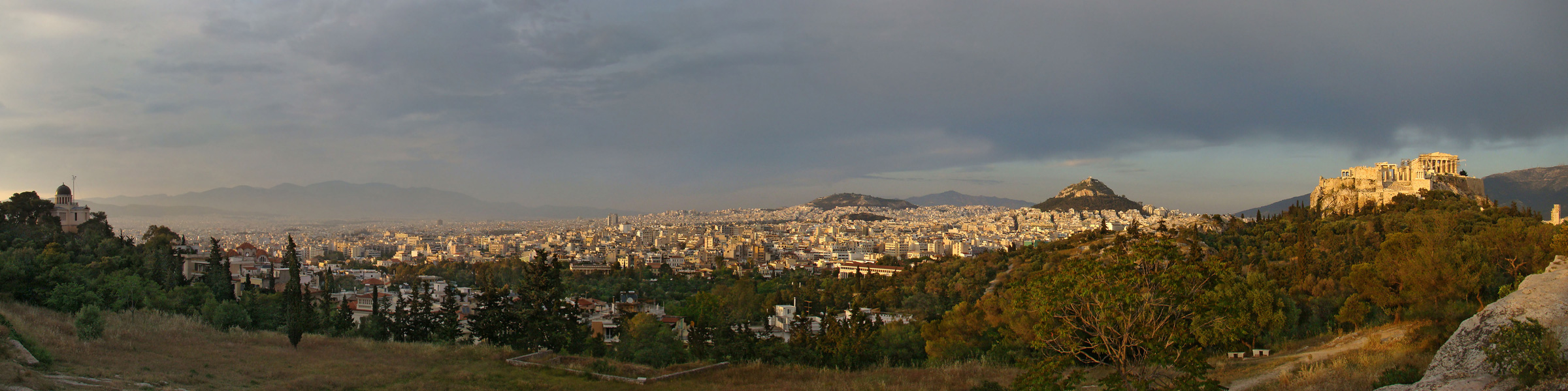 Athens, Greece. Panorama from the Hill of the Pnyx. On the left: the Old Observatory, the Church of Agia Marina Thession. In the centre: the Temple of Hephaestus, the Stoa of Attalos. On the right: Mount Lykavittos, the Acropolis. See the photo notes for the exact locations.